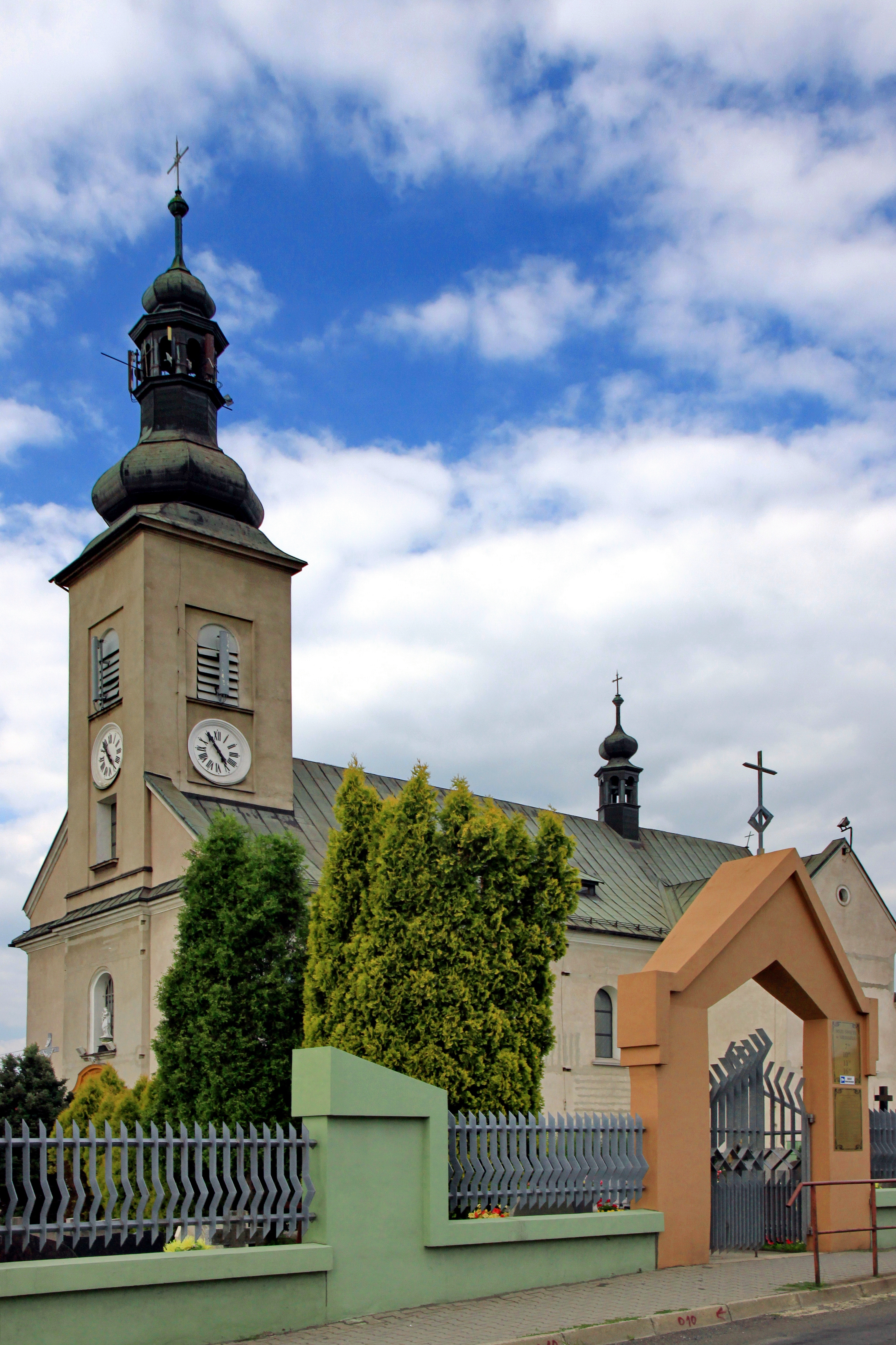 Pogwizdów, parish church of St. John of Nepomuk, build in 1808, 1860